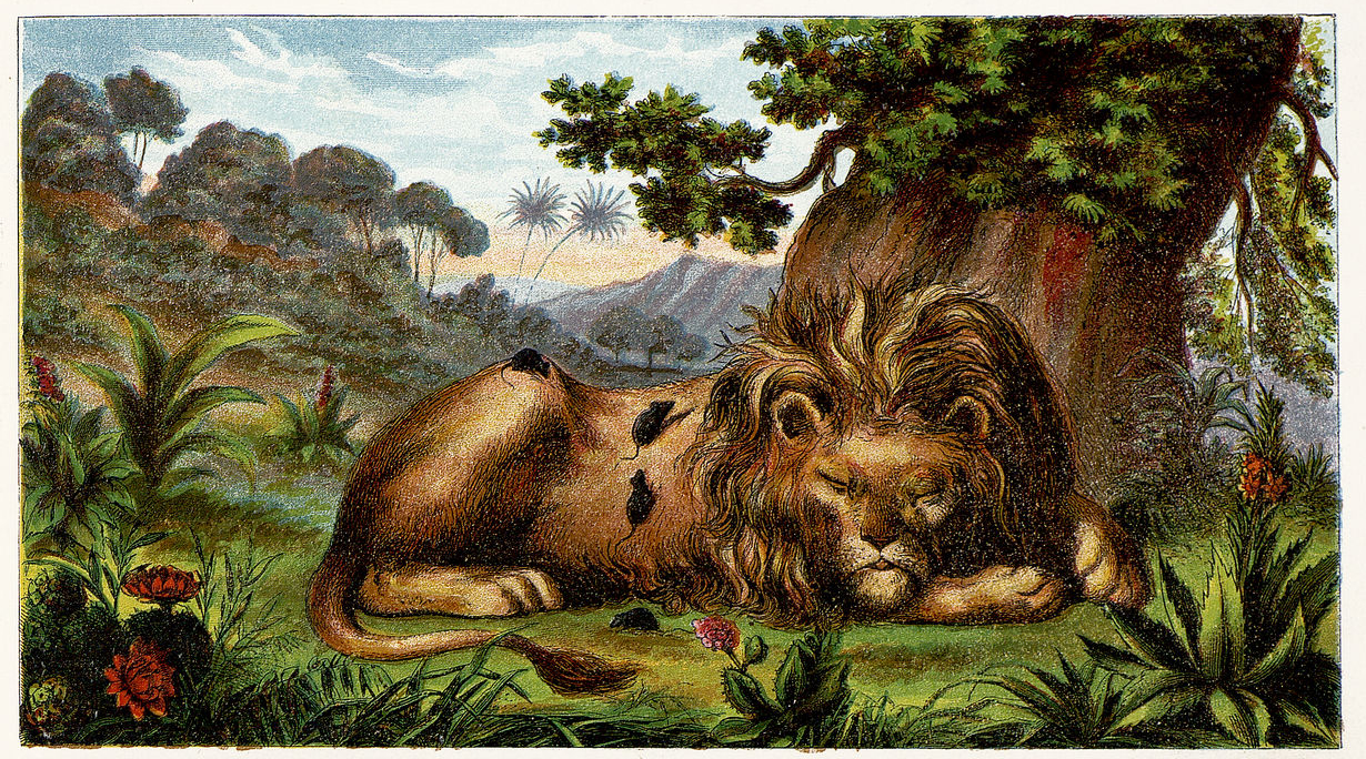 The fable of the lion and the mouse from Aunt Louisa’s Oft Told Tales, New York, 1870s